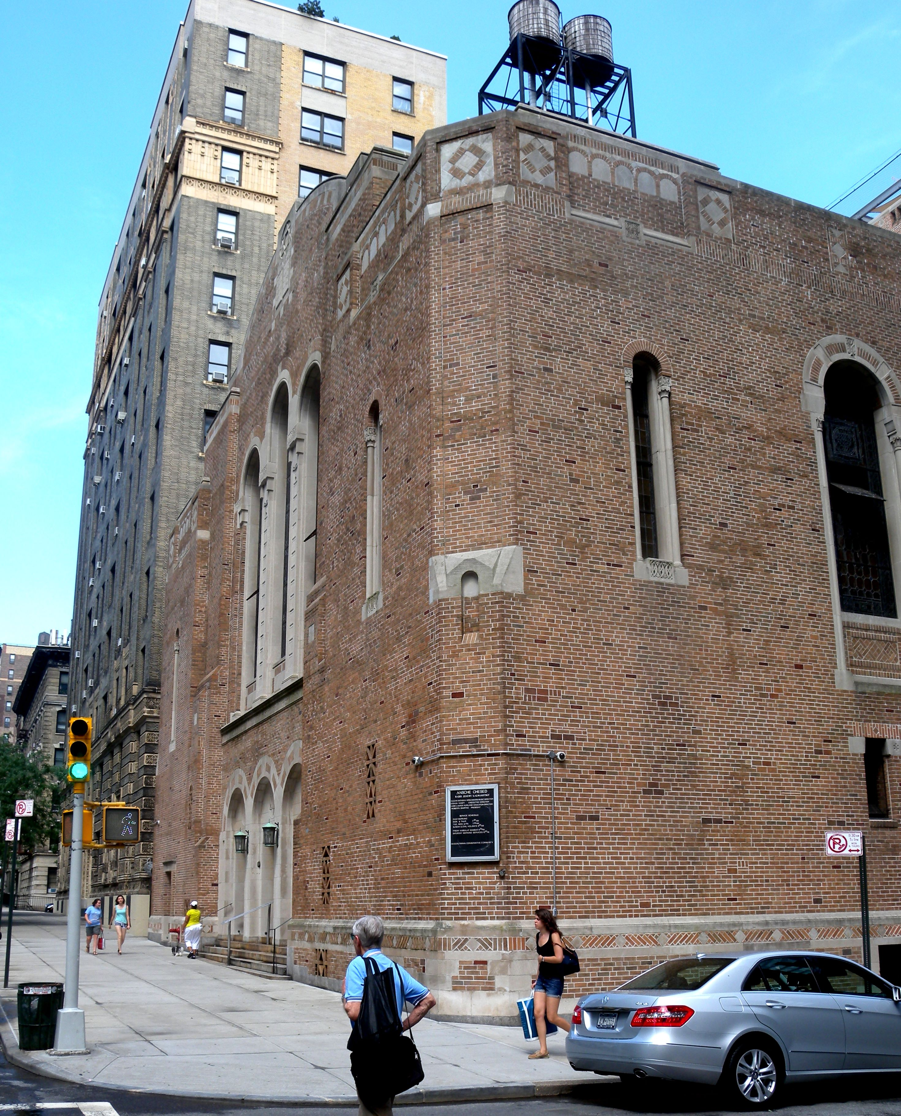 Looking northeast across West End Avenue and 100th Street at Ansche Chesed on a mostly cloudy afternoon.